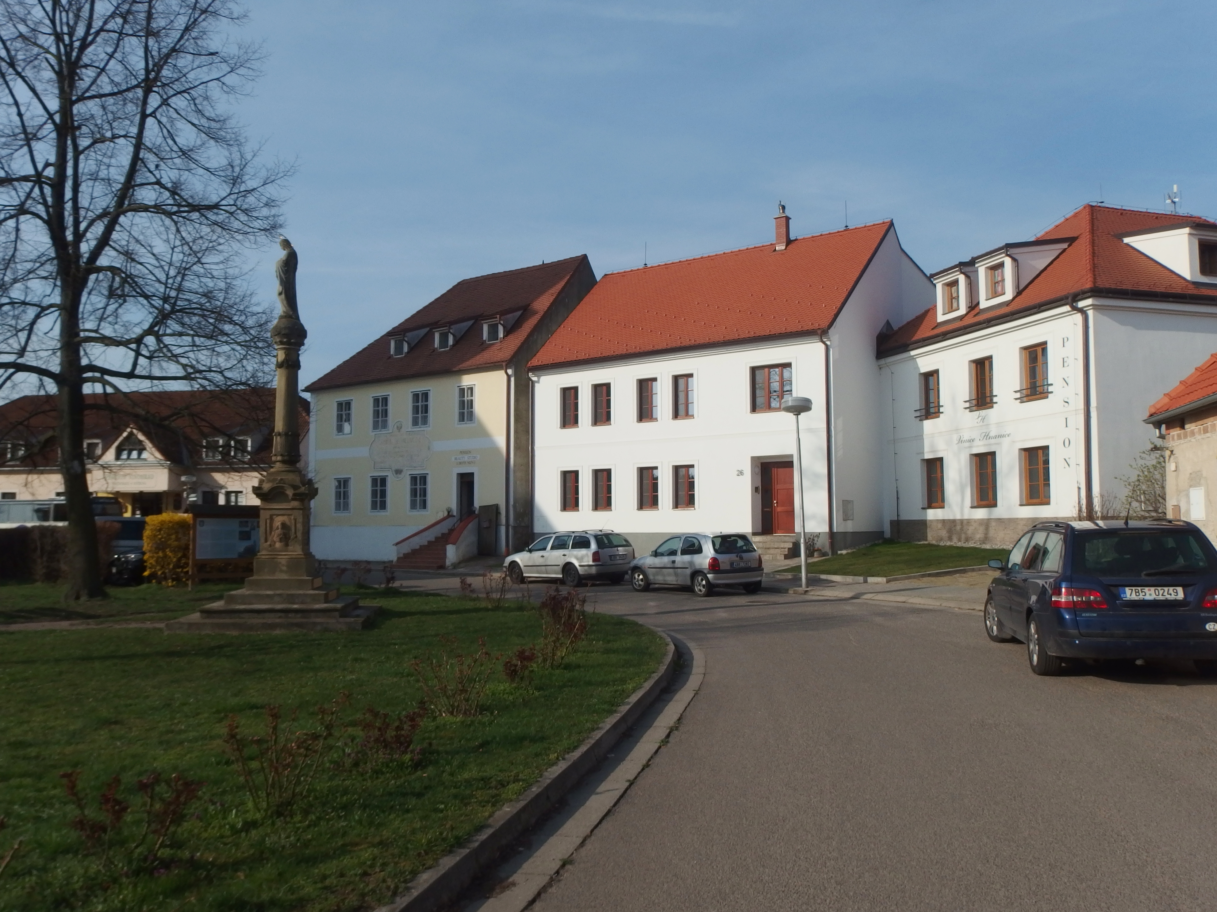 Hnanice in Znojmo District, Czech Republic.